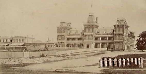 Admans Grand Hotel, Queenscliff in 1882